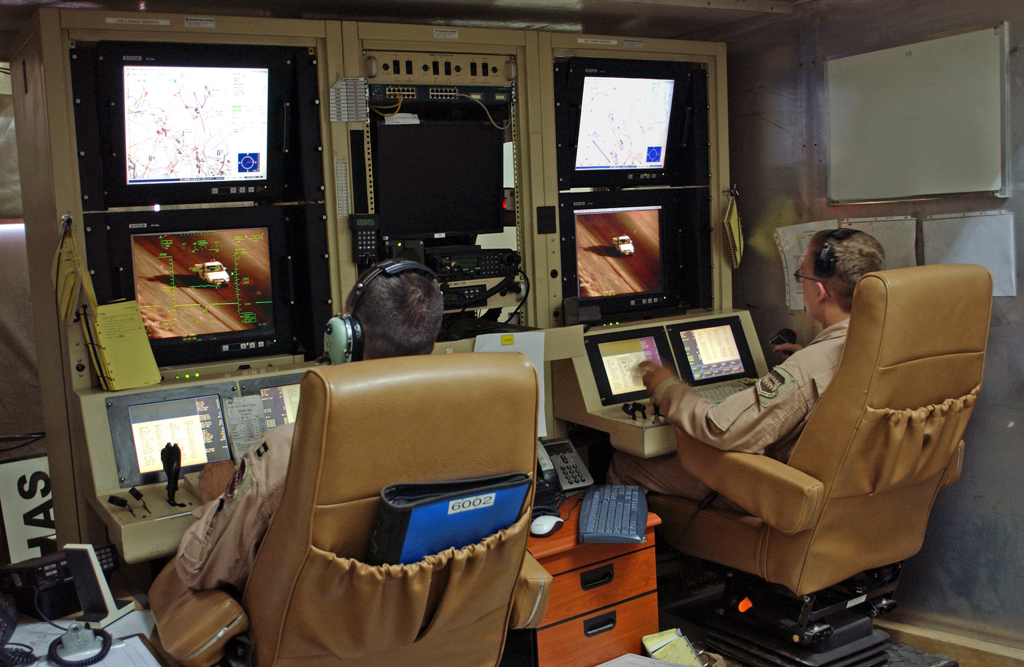 Captain Richard Koll, left, and Airman 1st Class Mike Eulo perform function checks after launching an MQ-1 Predator unmanned aerial vehicle August 7 at Balad Air Base, Iraq. Captain Koll, the pilot, and Airman Eulo, the sensor operator, will fly the Predator in a radius of approximately 25 miles around the base before handing it off to personnel stationed in the United States to continue its mission. Both are assigned to the 46th Expeditionary Reconnaissance Squadron.